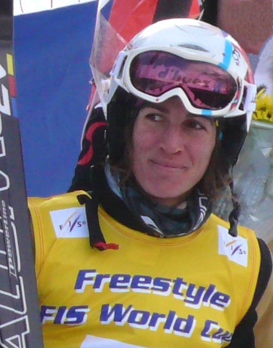 Ophélie David at Les Contamines-Montjoie on 2010-01-10)